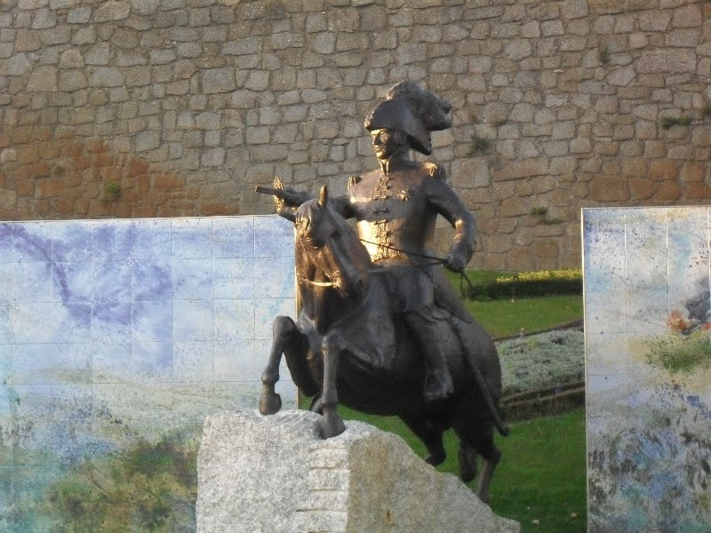 Statue of General Silveira, along the walls of Fort St. Francisco, Chaves. Launched in celebration of the bicentenary of the Peninsular War.